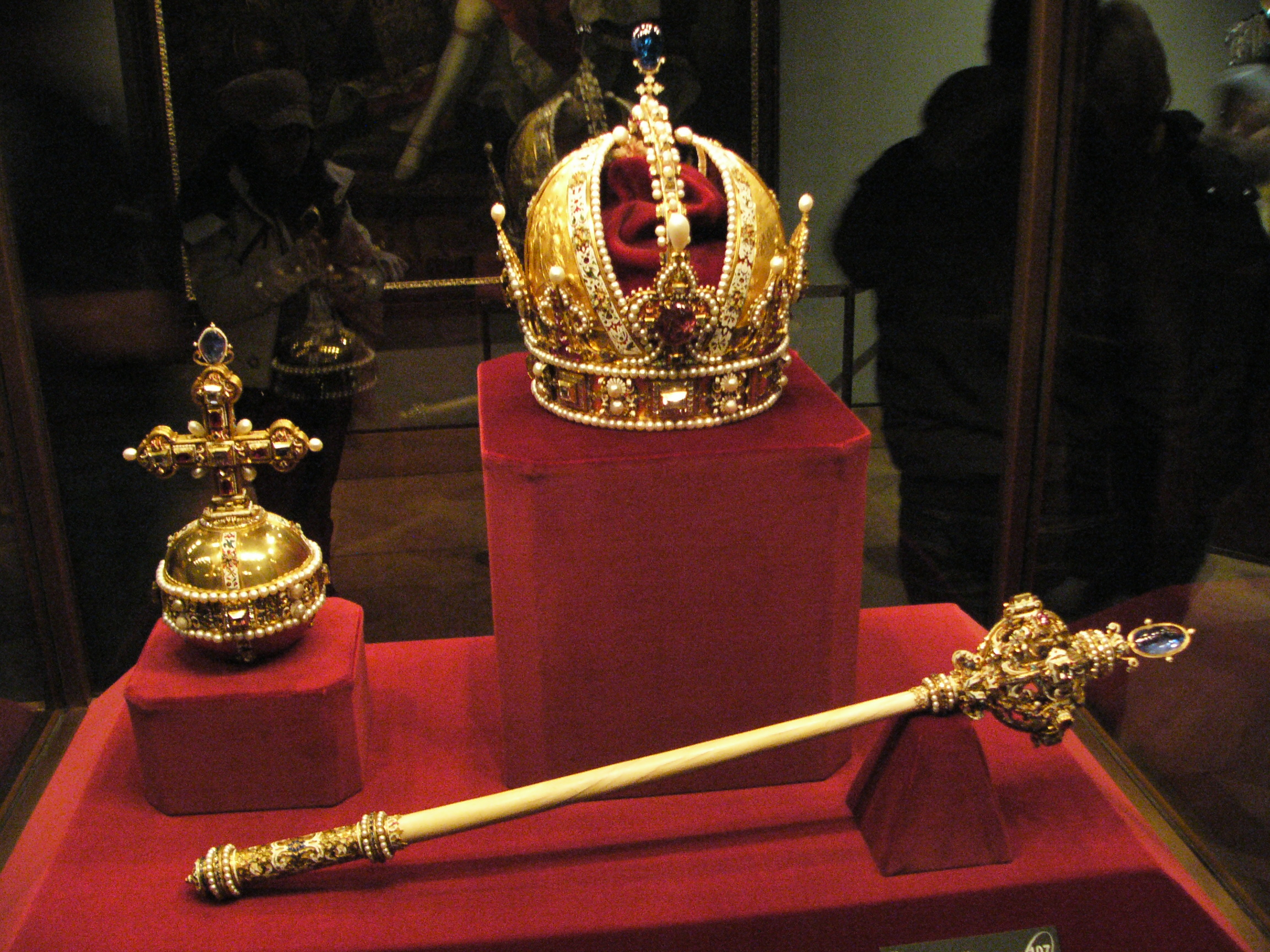 Sceptre and Orb and Imperial crown of Austria in Schatzkammer in Wien (Austria).